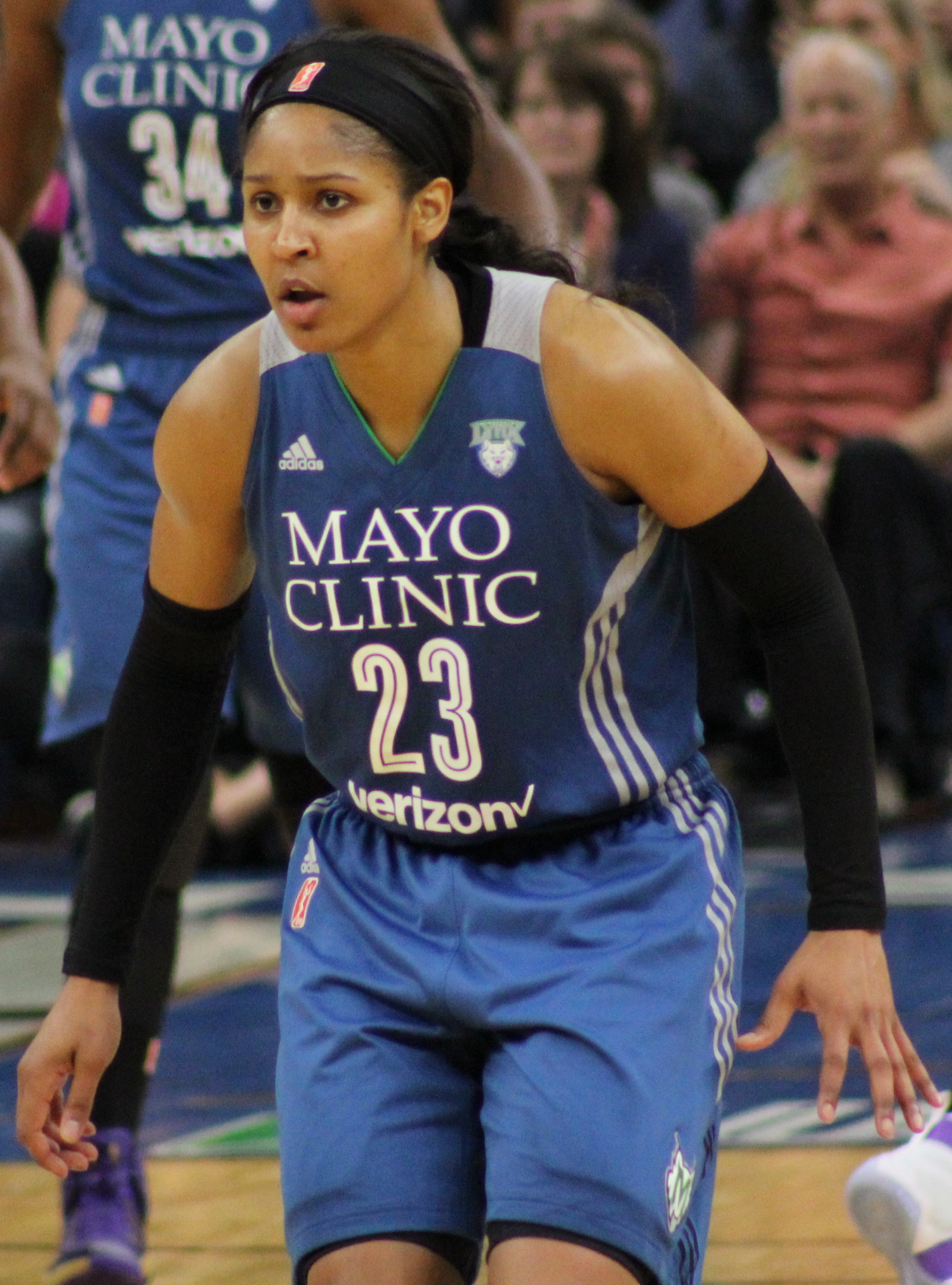 Maya Moore of the Minnesota Lynx